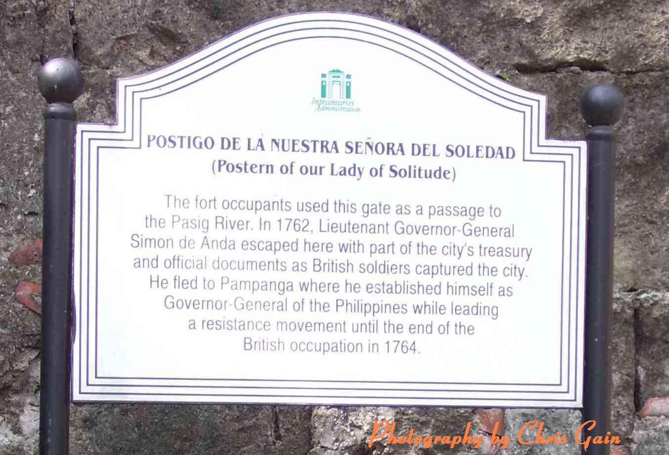 Sign in Fort Santiago next to departure point of Don Simon Anda from Fort Santiago.